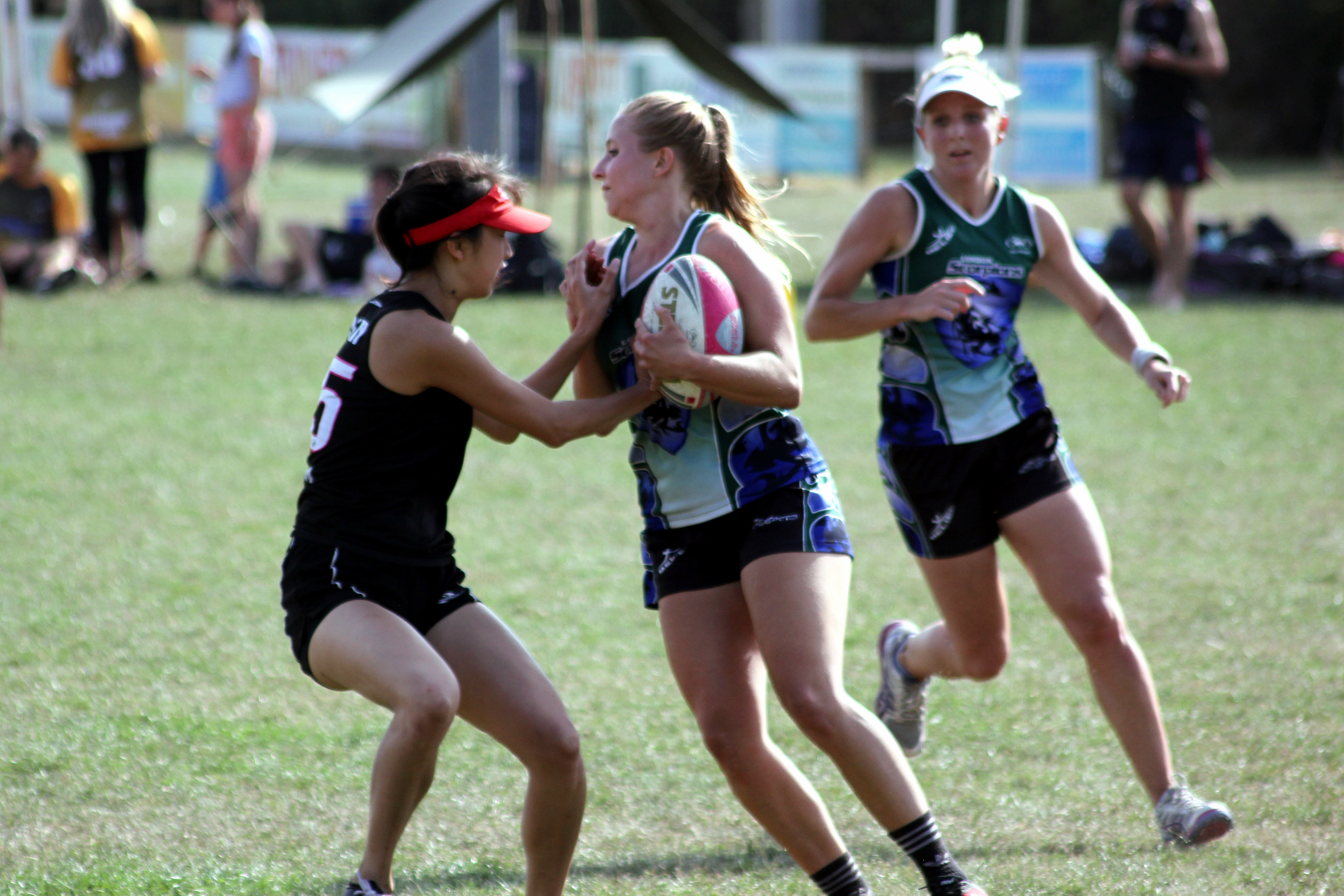 Image of three touch rugby players. From clubs Glaxay Touch London, and London Scorpions Touch. Club Final of 2018. Canterbury RFC, England. Under the Mens and Womens National Touch Series of the England Touch Association.